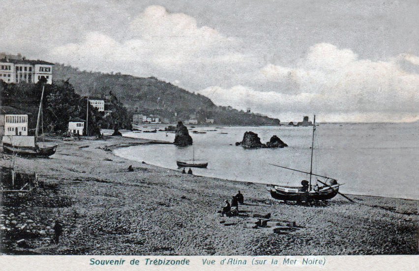 Postcard of Trebizond (Trabzon, Turkey) by Osman Nouri.